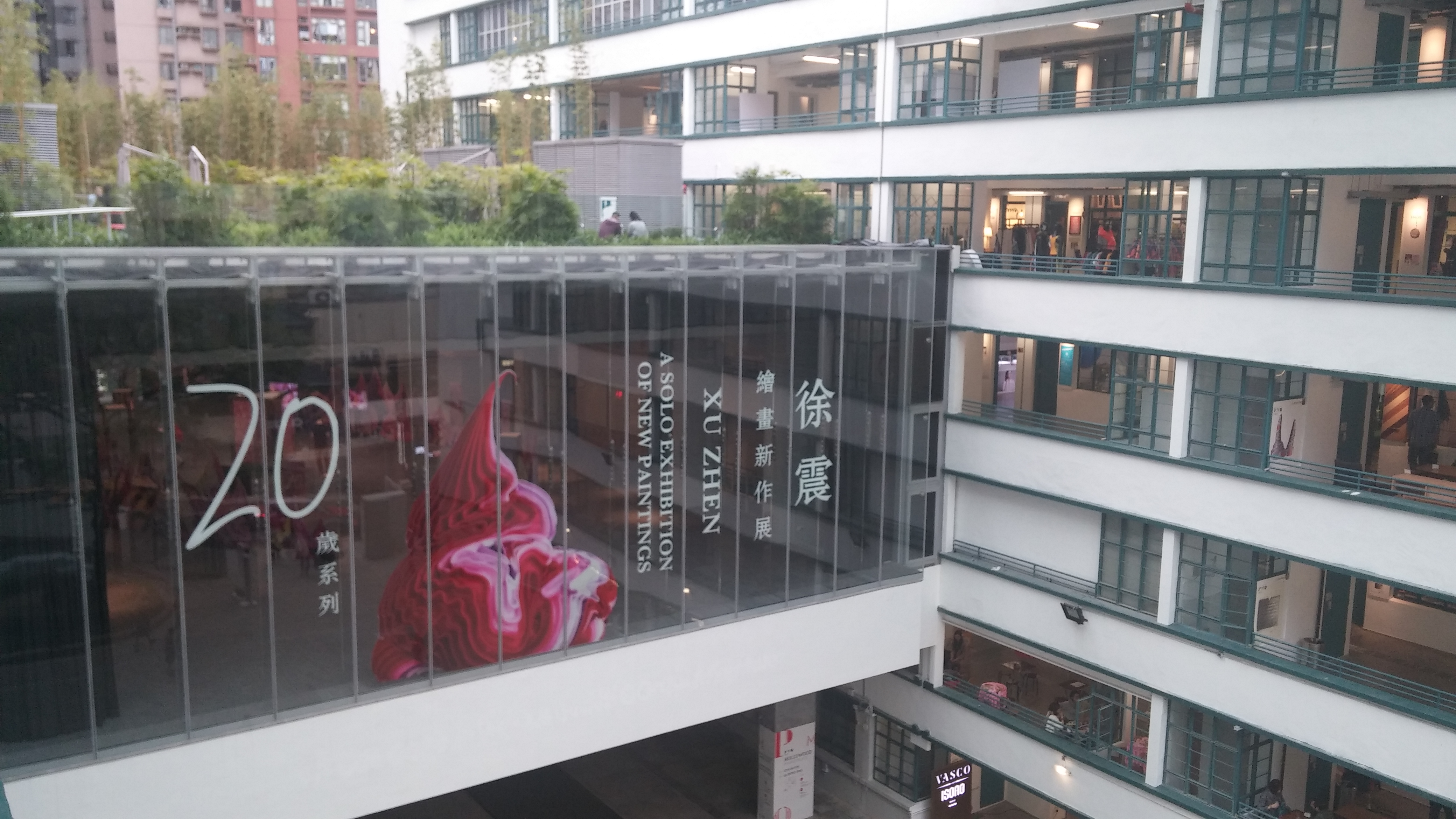 The 'CUBE'